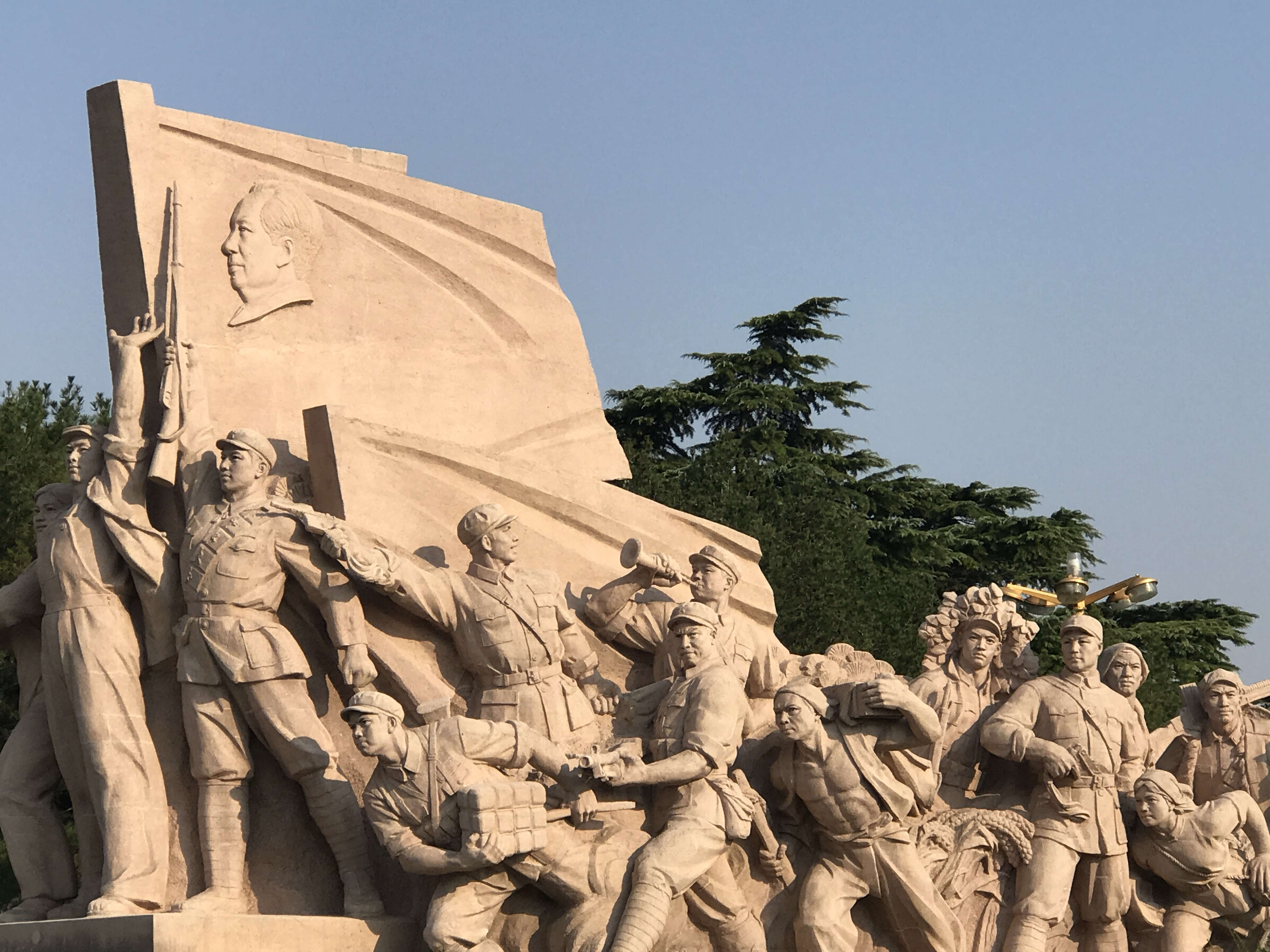 Statue outside Mao's Mausoleum, Beijing, China 2